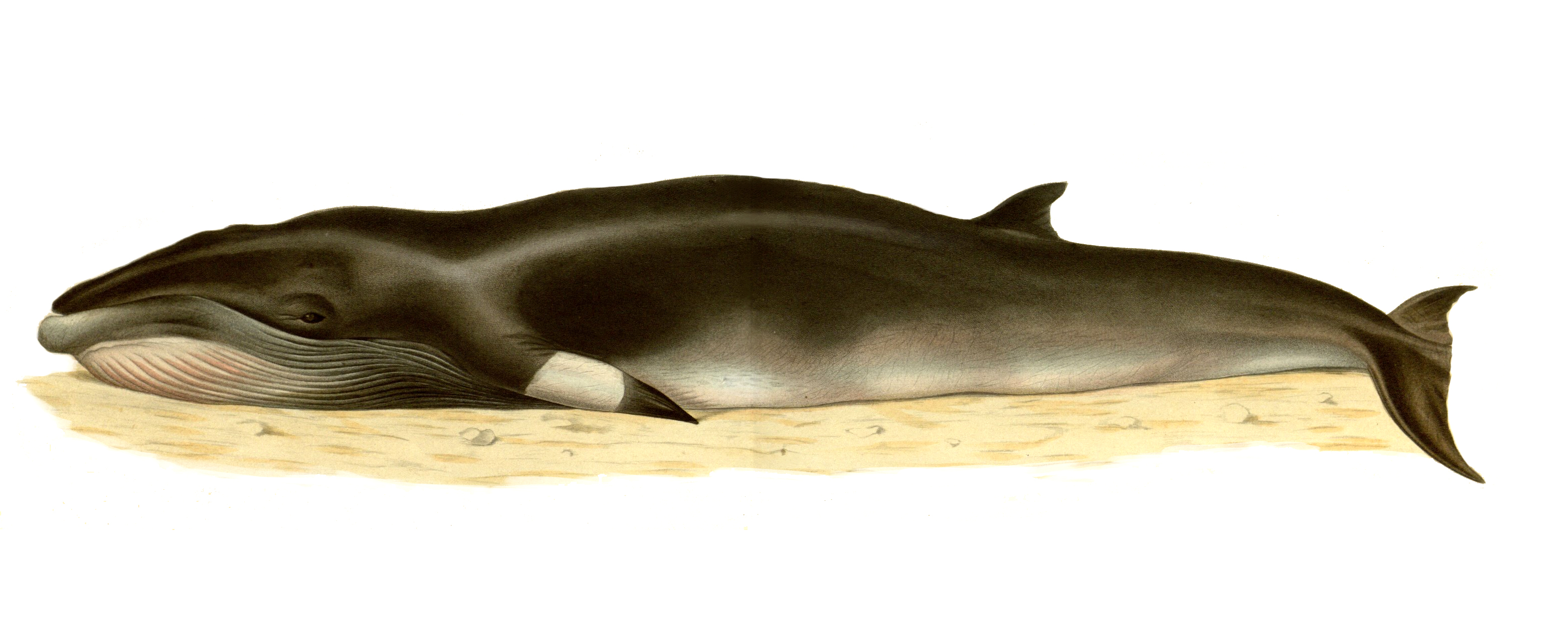 Balaenoptera-acutorostrata aground on the coasts of Brittany in February 1861